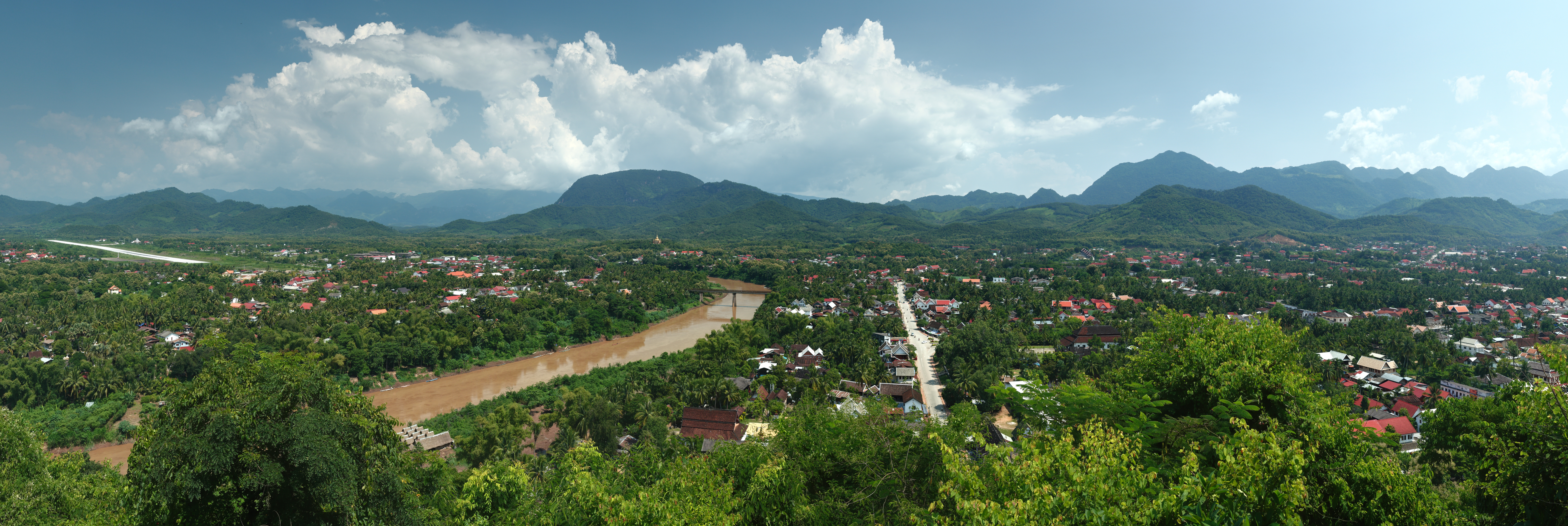 Panorama of Luang Prabang, north Laos, seen from Phu Si hill. This view features the Nam Khan river on the left, and the Luang Prabang airport on the very far left.